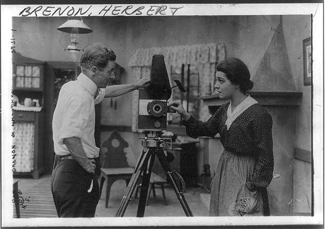 Herbert Brenon and Alla Nazimova with a camera on the set of the film War Brides (1916).